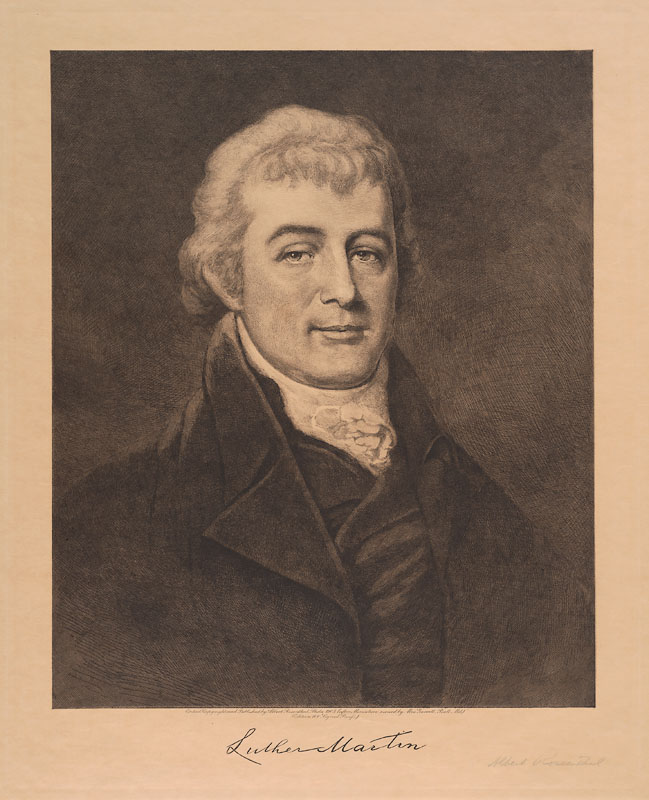 Luther Martin (1748-1826)